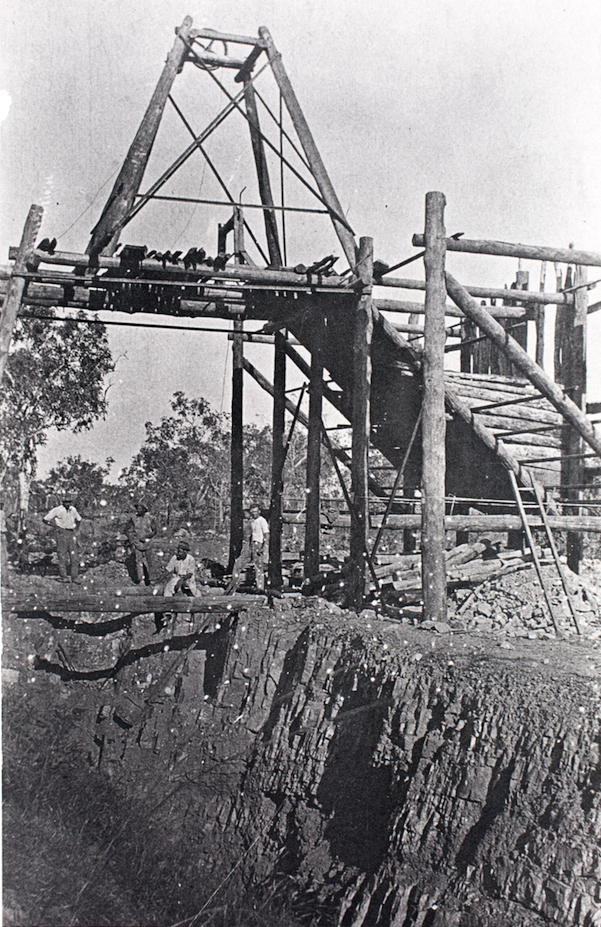 The tin mine at Maranboy. Harold Snell and two partners had a tin mining lease here. He was working there when he enlisted. His two partners continued to work the mine during the war when prices were good and banked his share of the profits. Just before Harold returned to the Territory, a solicitor and the profits disappeared to Singapore. (PH0233/0048)